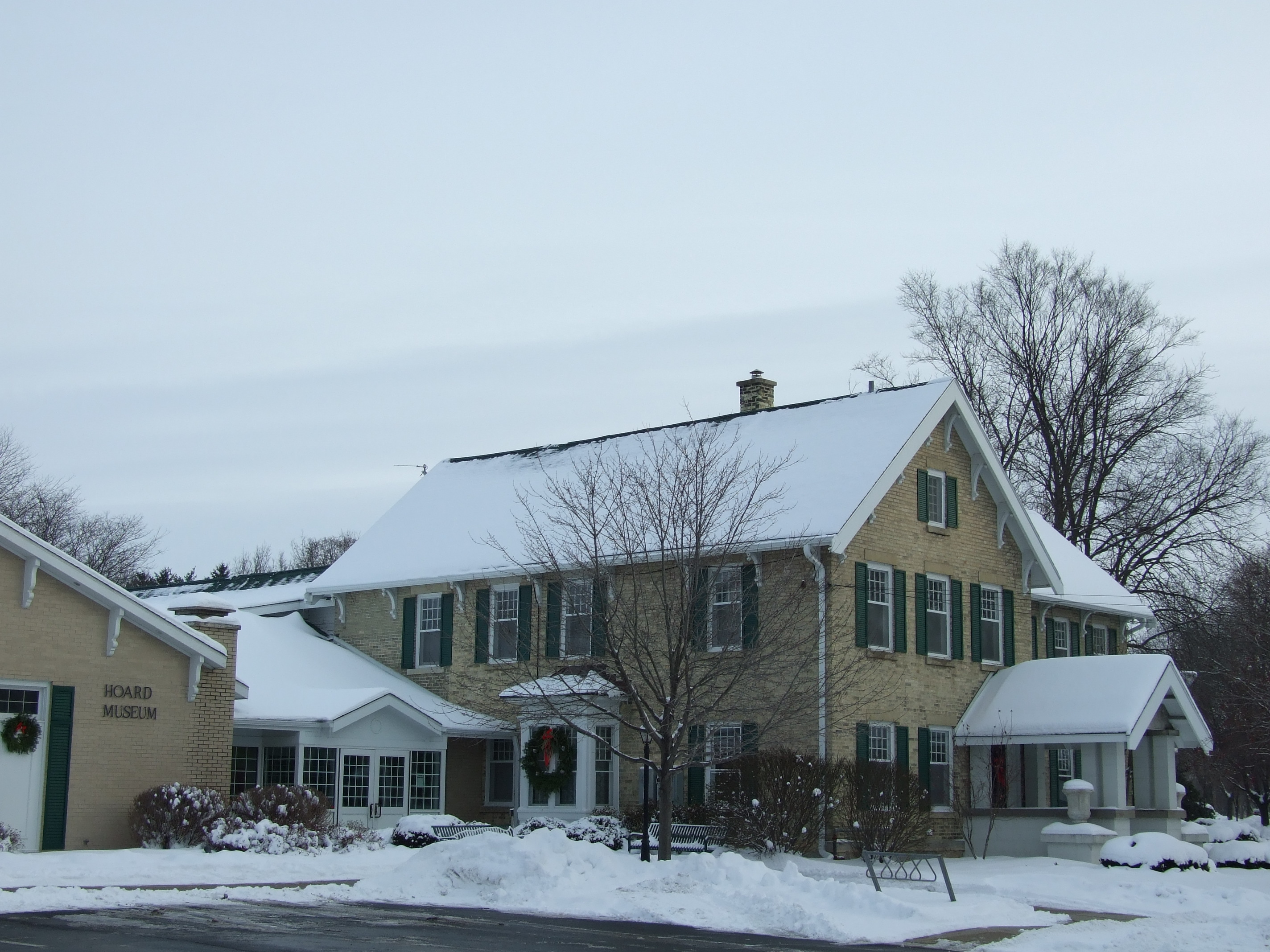 Hoard Historical Museum in Fort Atkinson, Wisconsin. Part of the Merchants Avenue Historic District.